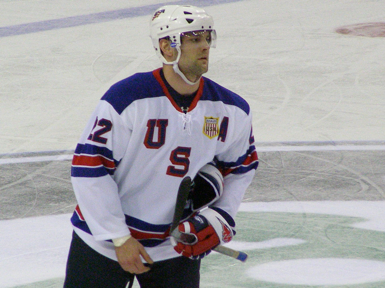 United States defenseman Mark Stuart plays against Latvia during the 2008 IIHF World Championship